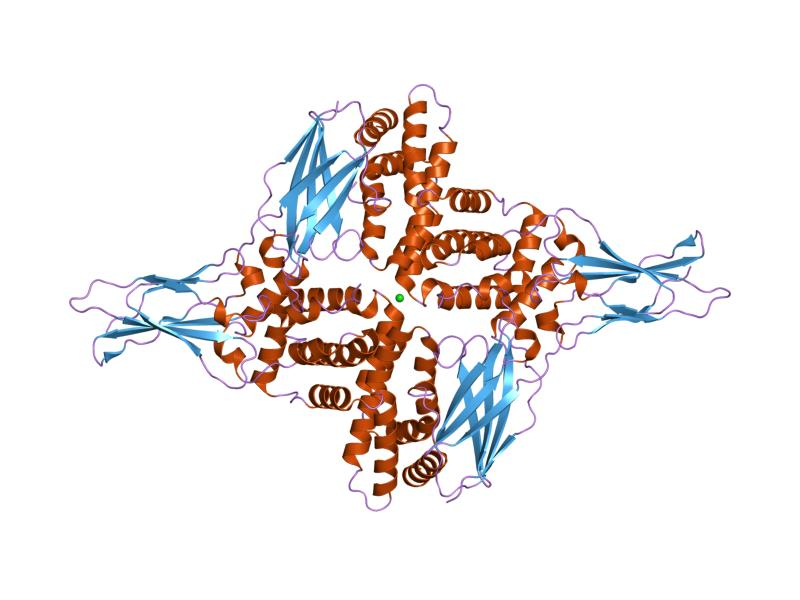 Cartoon representation of the molecular structure of protein registered with 1fyh code.